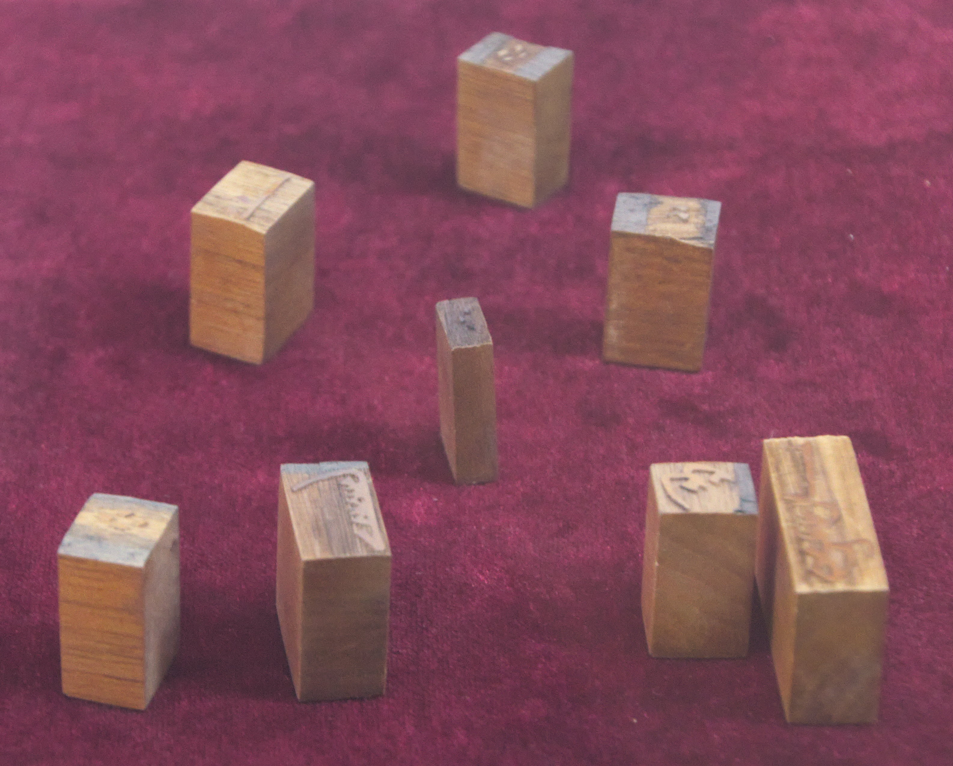 Old Uyghur alphabet (today used by mongolian and some tungusic languages for writing) wood movable types from 12th~13th century. This is the older sample of a movable type. They was discovered in Mogao Caves in Dunhuang, Gansu province, and are today in China Printing Museum in Beijing. 中文（中国大陆）: 回鹘文12～13世纪木活字，国际最老活字。于甘肃省敦煌市的莫高窟发现了。